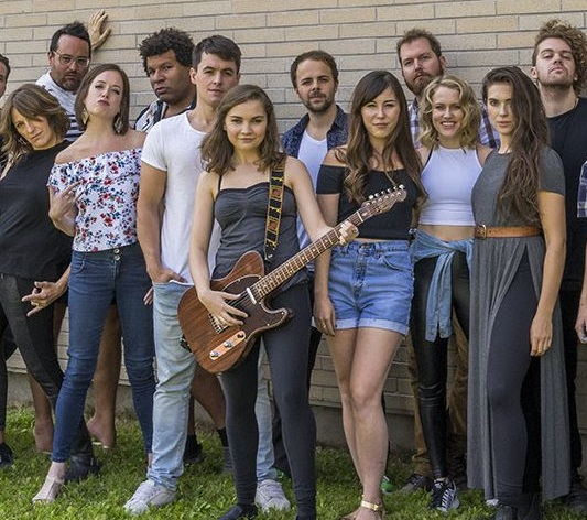 North American Regional Theatre Premiere cast, Magnus Theatre